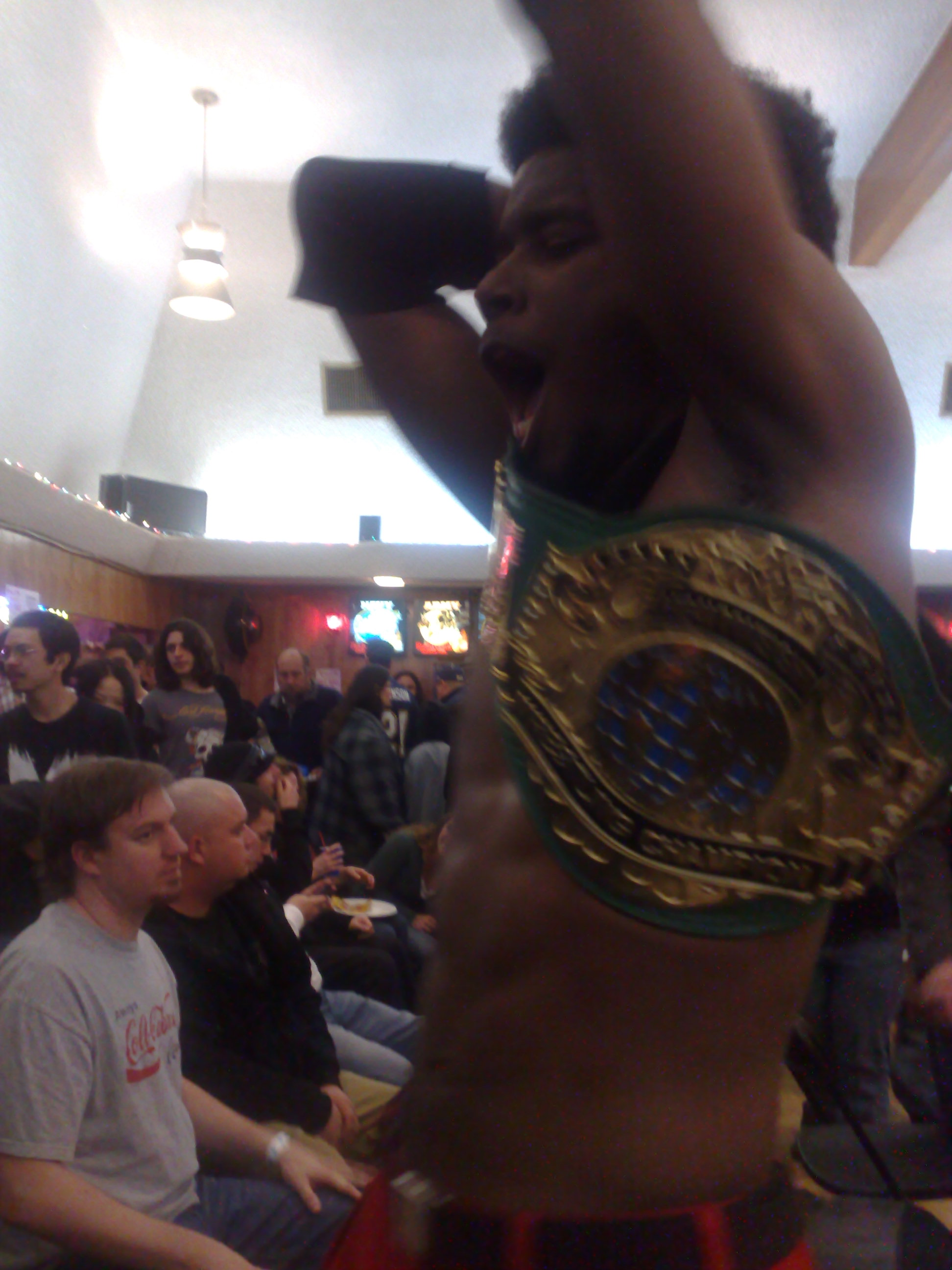 Human Tornado with the PWG World Championship at PWG ¡Dia de los Dangerous! on February 24, 2008